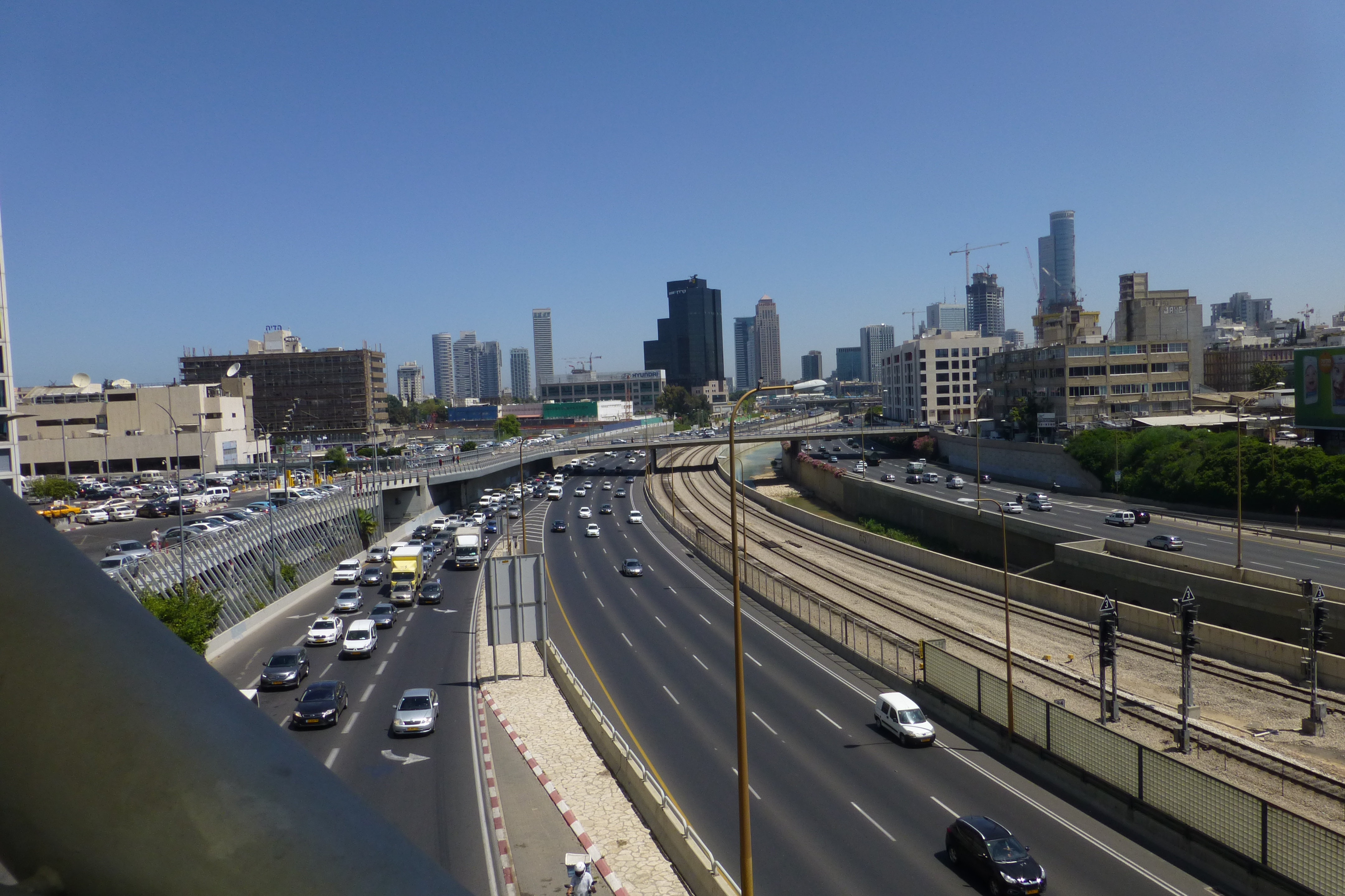 Highway 20 (Israel)